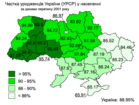 Proportion of people born in Ukraine (UkSSR) according to 2001 Ukrainian Census